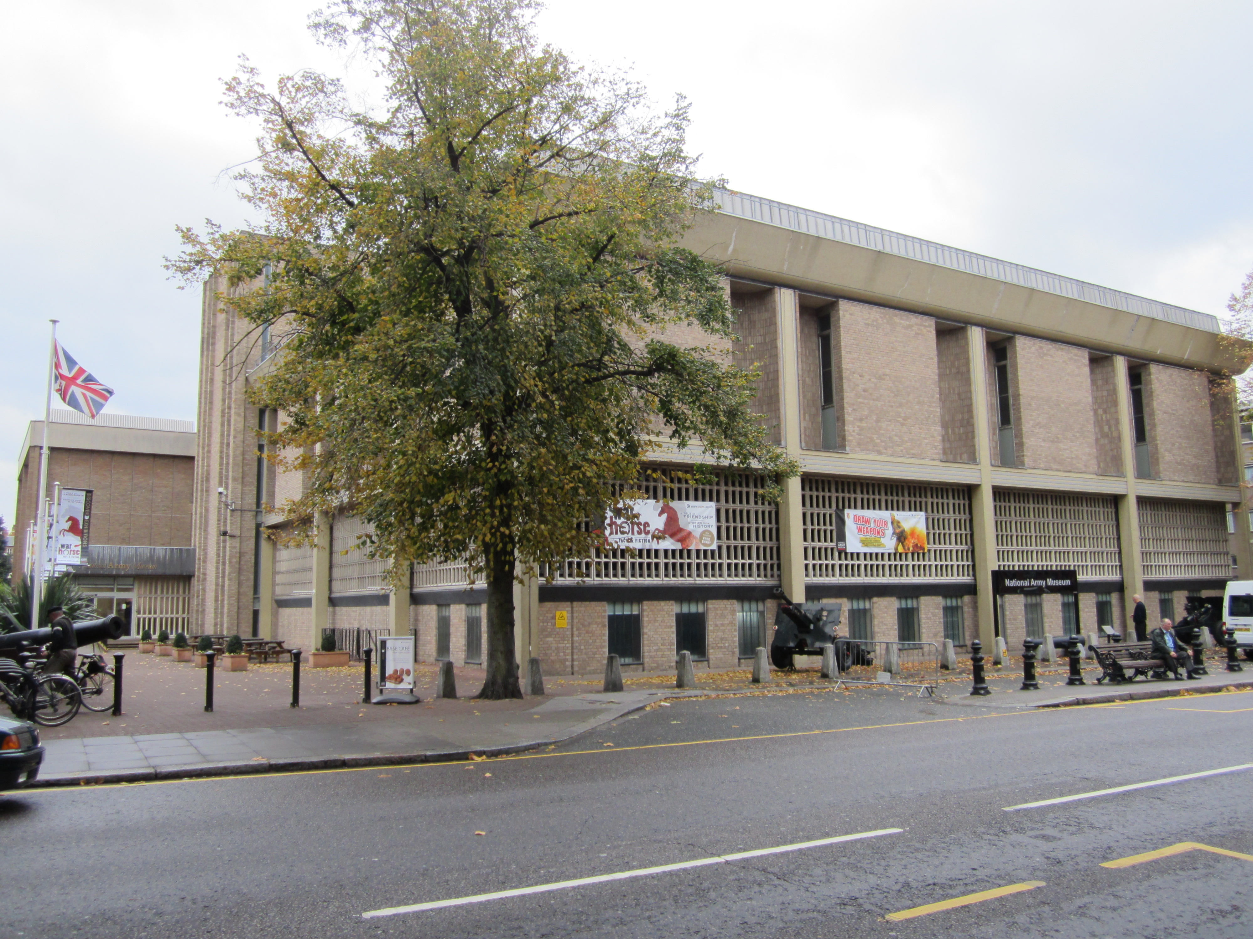 Exterior of the National Army Museum in London as of November 2011